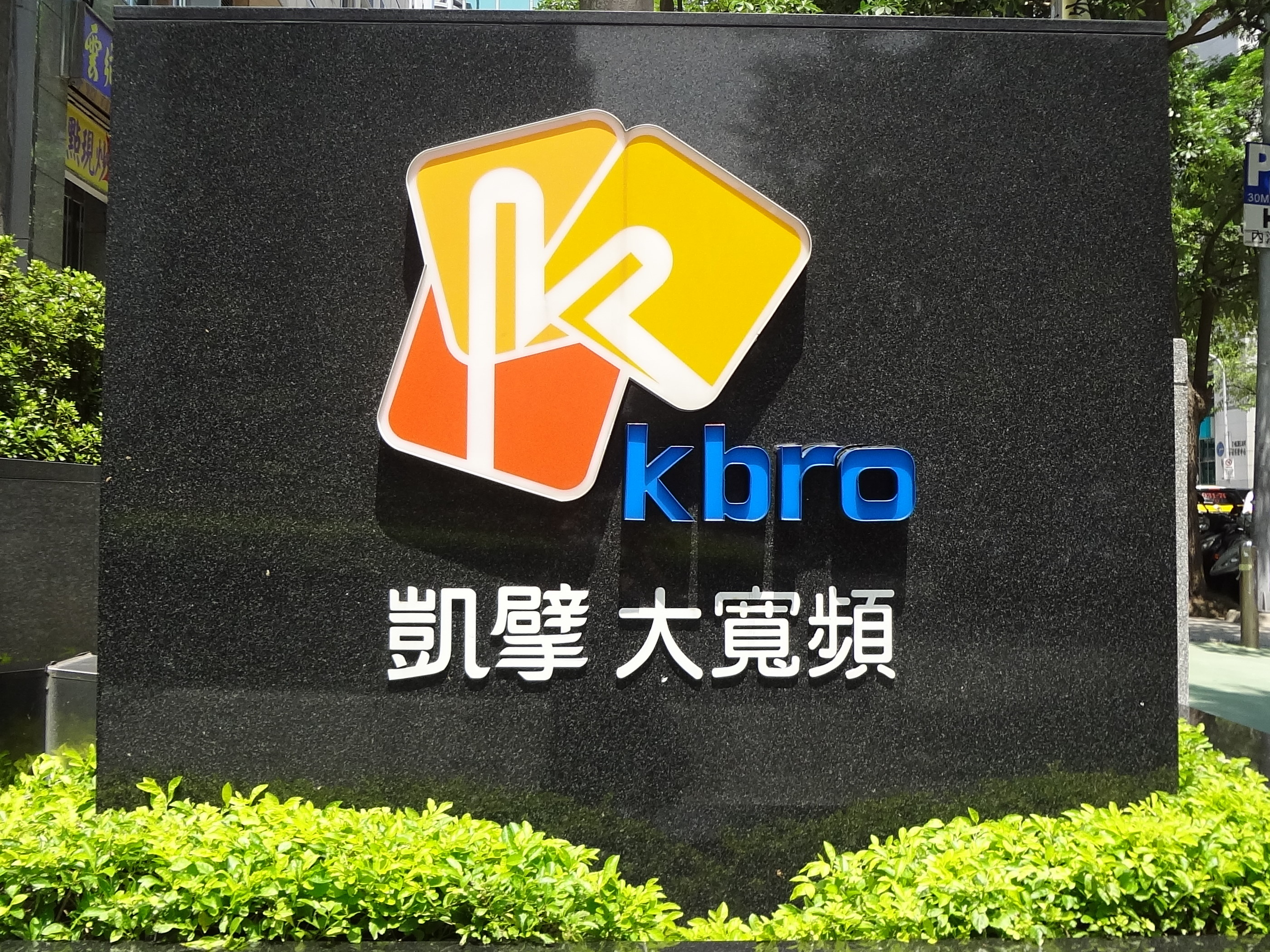 Kbro broadband logo stele in front of Fubon Momo Building.